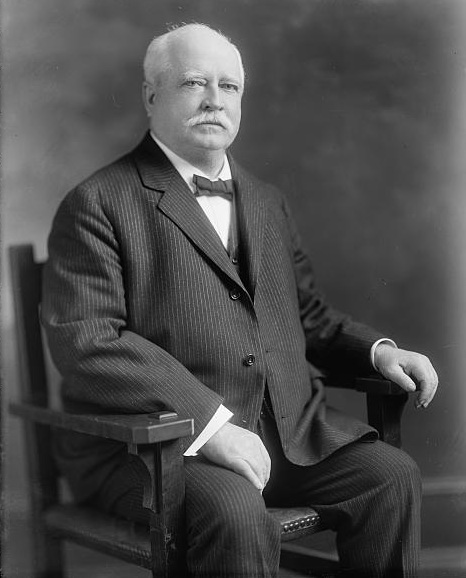 William E. Cleary, Congressman from New York